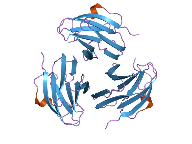 Cartoon representation of the molecular structure of protein registered with 1pm4 code.